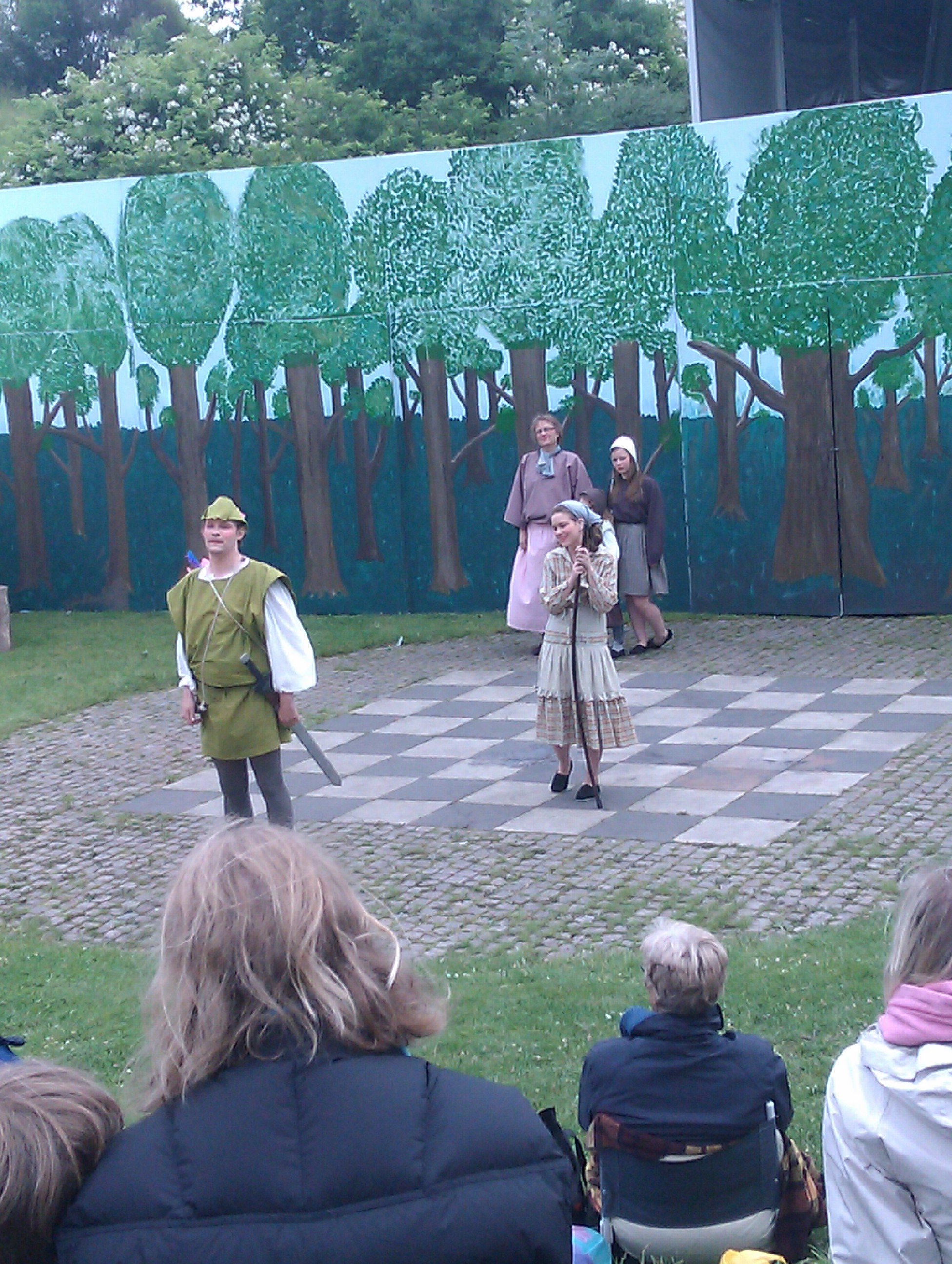 Skovlunde Byteater performing the play Robin Hood.